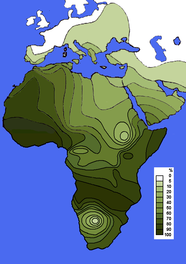 Haplogroup E (Y-DNA) frequency distribution.